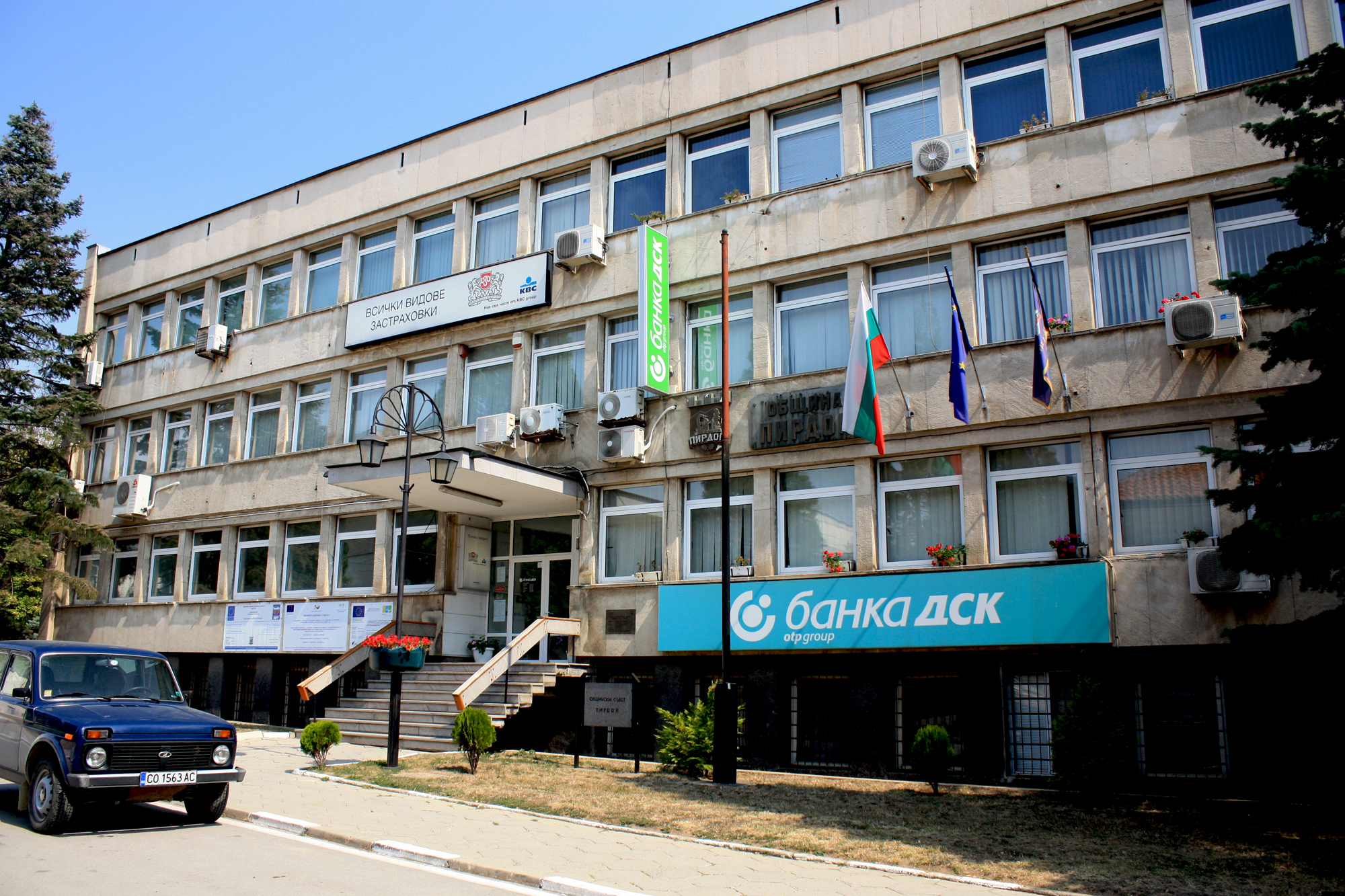 Pirdop Townhall